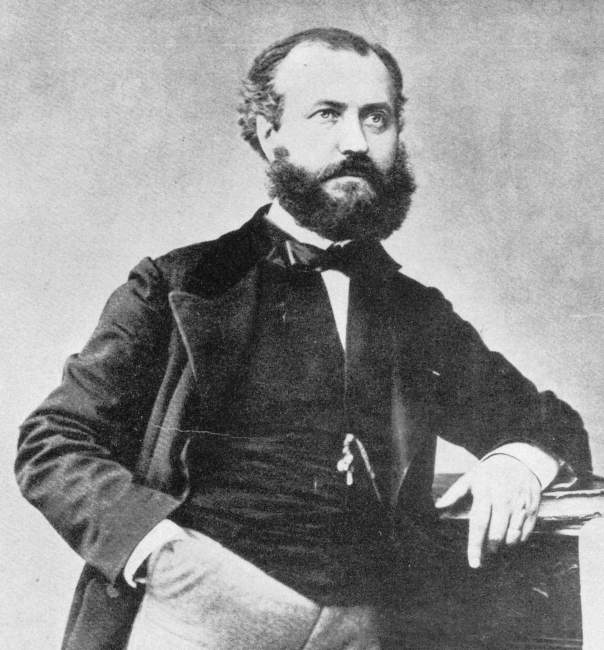 Charles Gounod (1818-1893), French composer, as photographed in 1859 at the time of the premiere of his opera Faust